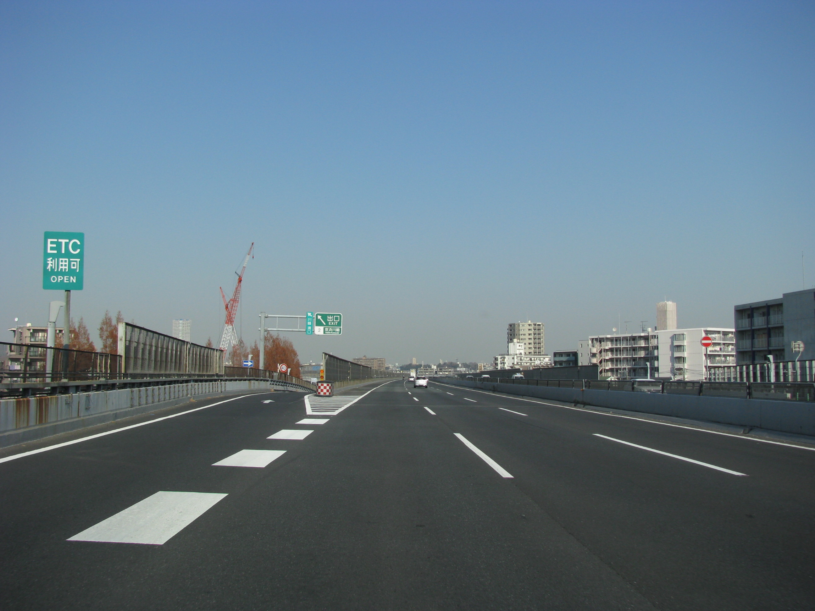 The Keihin-Kawasaki Interchange on the Daisan Keihin Road in Kawasaki City, Kanagawa Prefecture, Japan